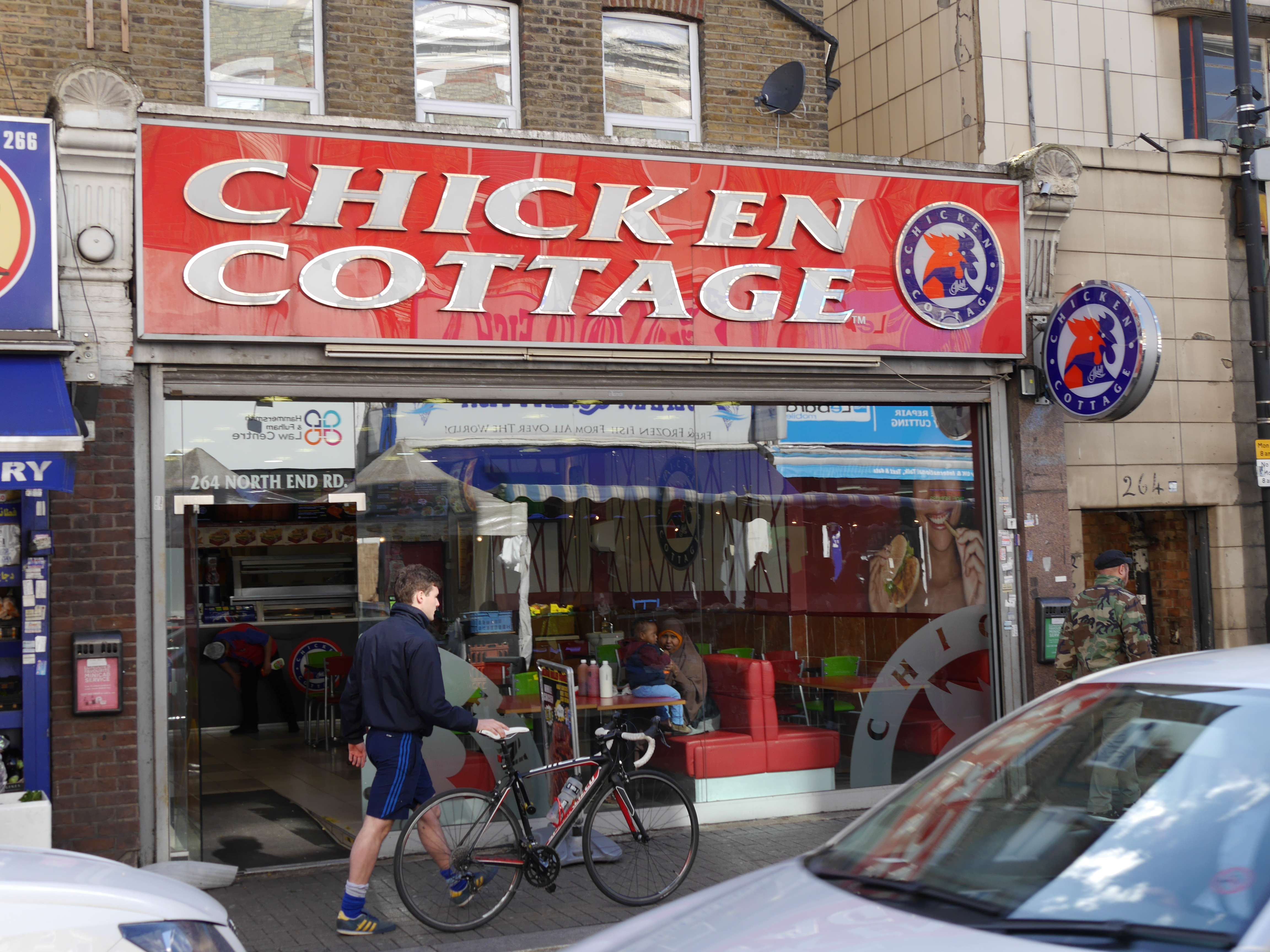 North End Road, Fulham, London